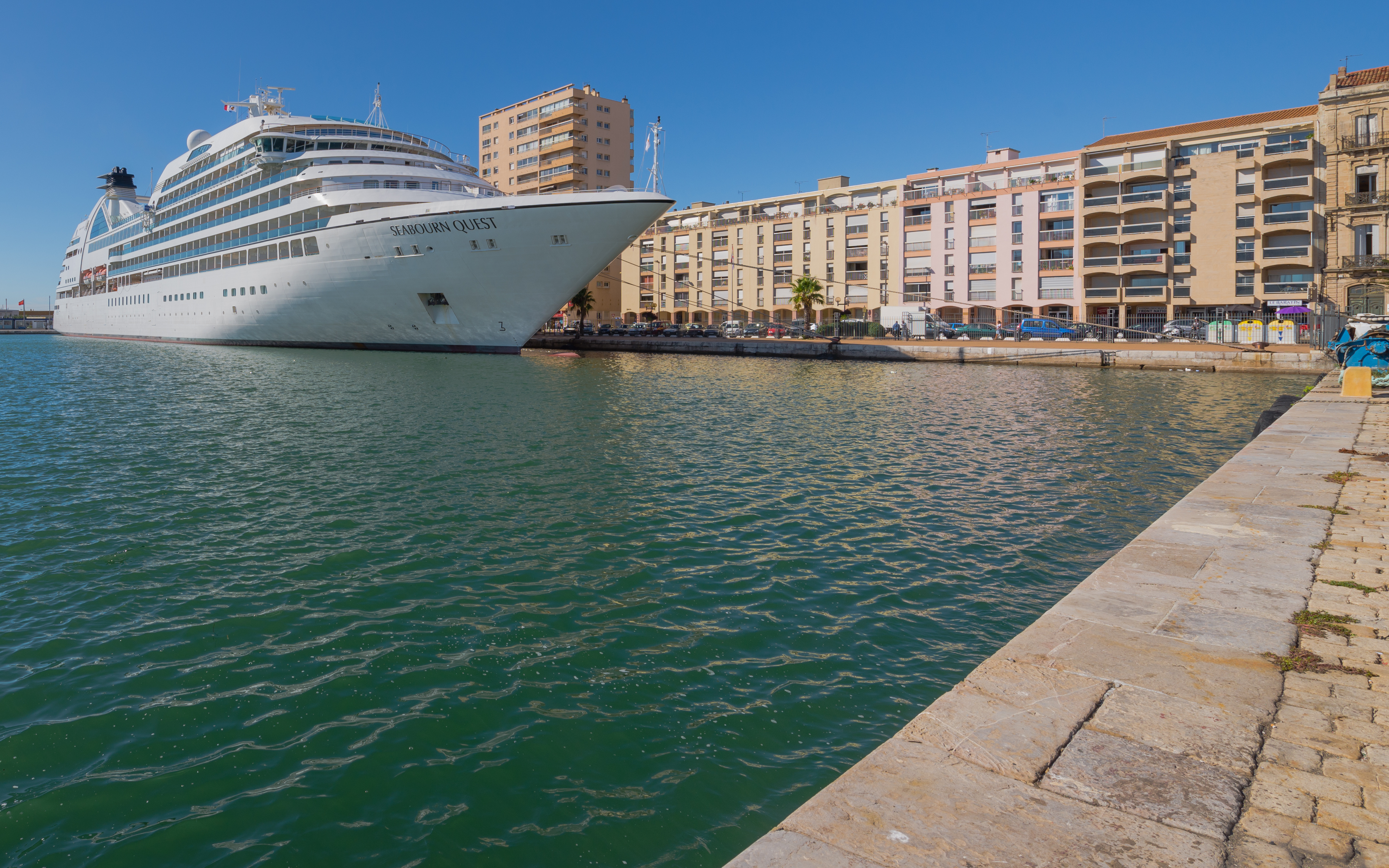 The MV Seabourn Quest (2011), a cruise ship of the Seabourn Cruise Line company, moored at the Algiers Embankment. Sète, Hérault, France.